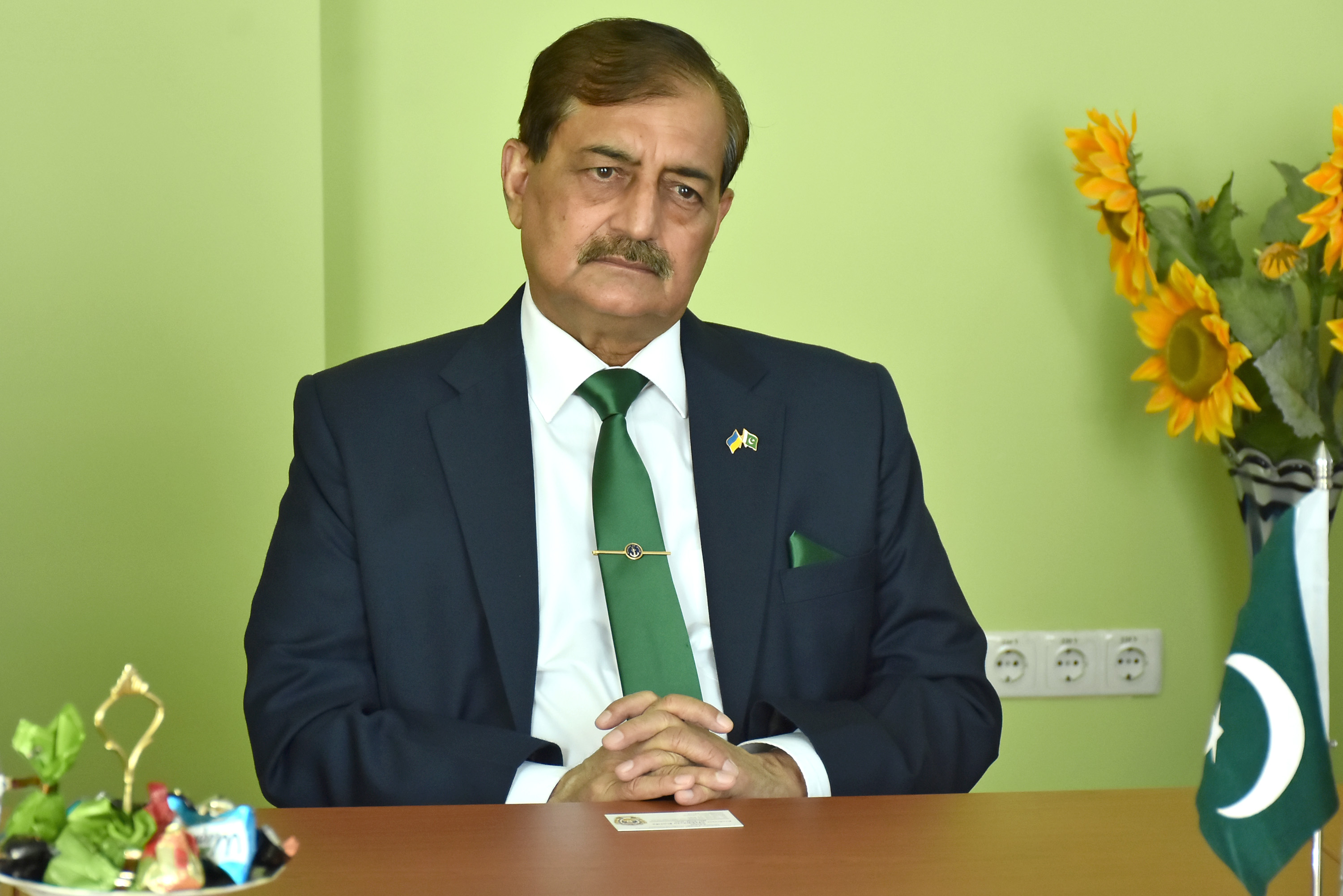 Ambassador Extraordinary and Plenipotentiary of Pakistan to Ukraine Zahid Mubashir Sheikh visited the I. Horbachevsky Ternopil National Medical University.